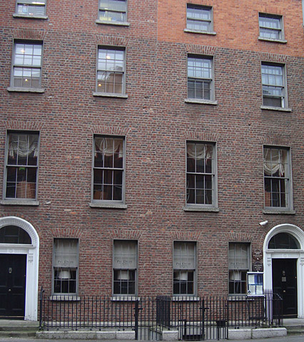 Photograph of Lord Carson's birthplace, 4 Harcourt Street, Dublin, Ireland. Taken by me 20 January 2009.